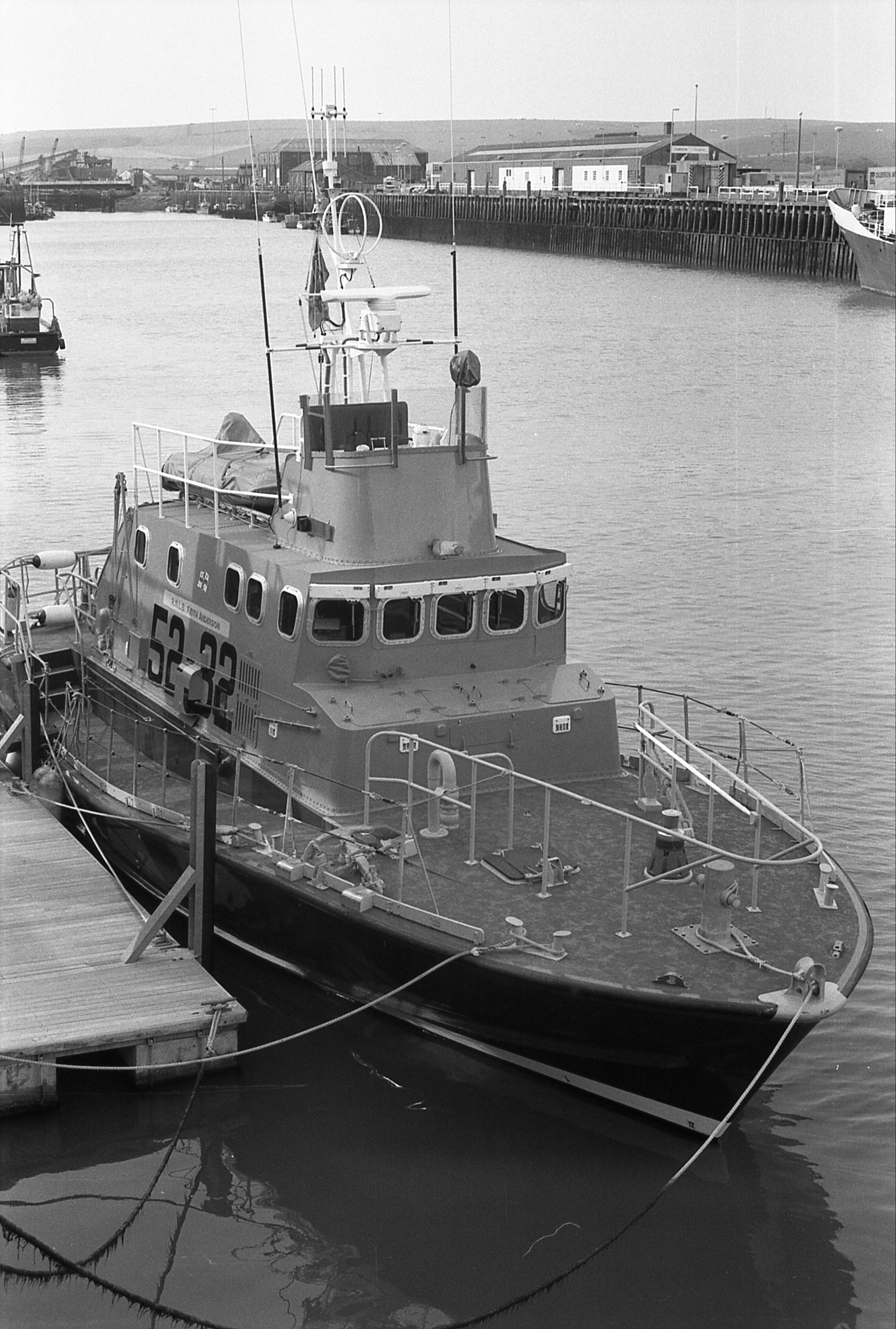 Ever ready, the Newhaven lifeboat awaits a call to duty in the 1980s. Camera: Olympus OM1 35mm SLR.